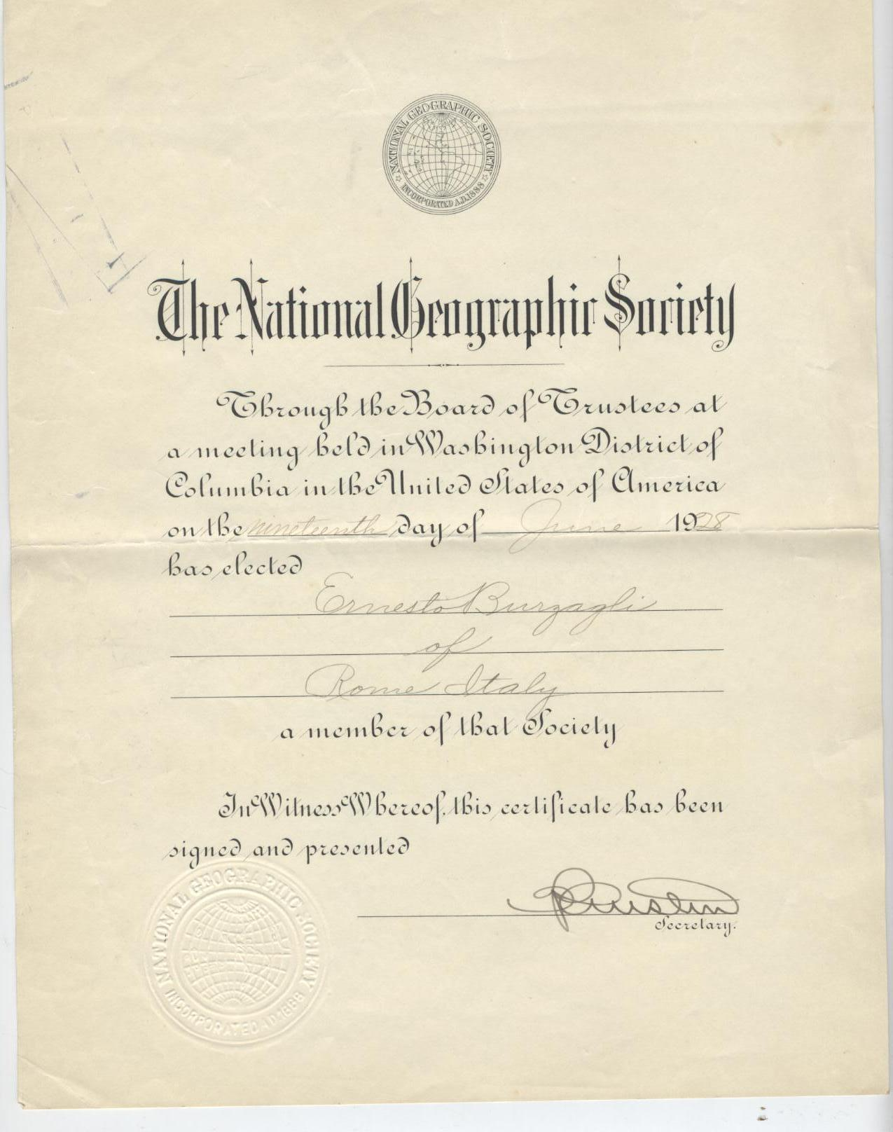 The official diploma presented to Italian Admiral Ernesto Burzagli when he was awarded membership in the National Geographic Society in 1928.